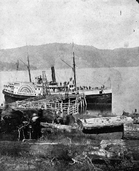 Sidewheel steamship Princess Louise at a dock, sometime around the 1880s. Precise location unknown, but believed to be somewhere in British Columbia.